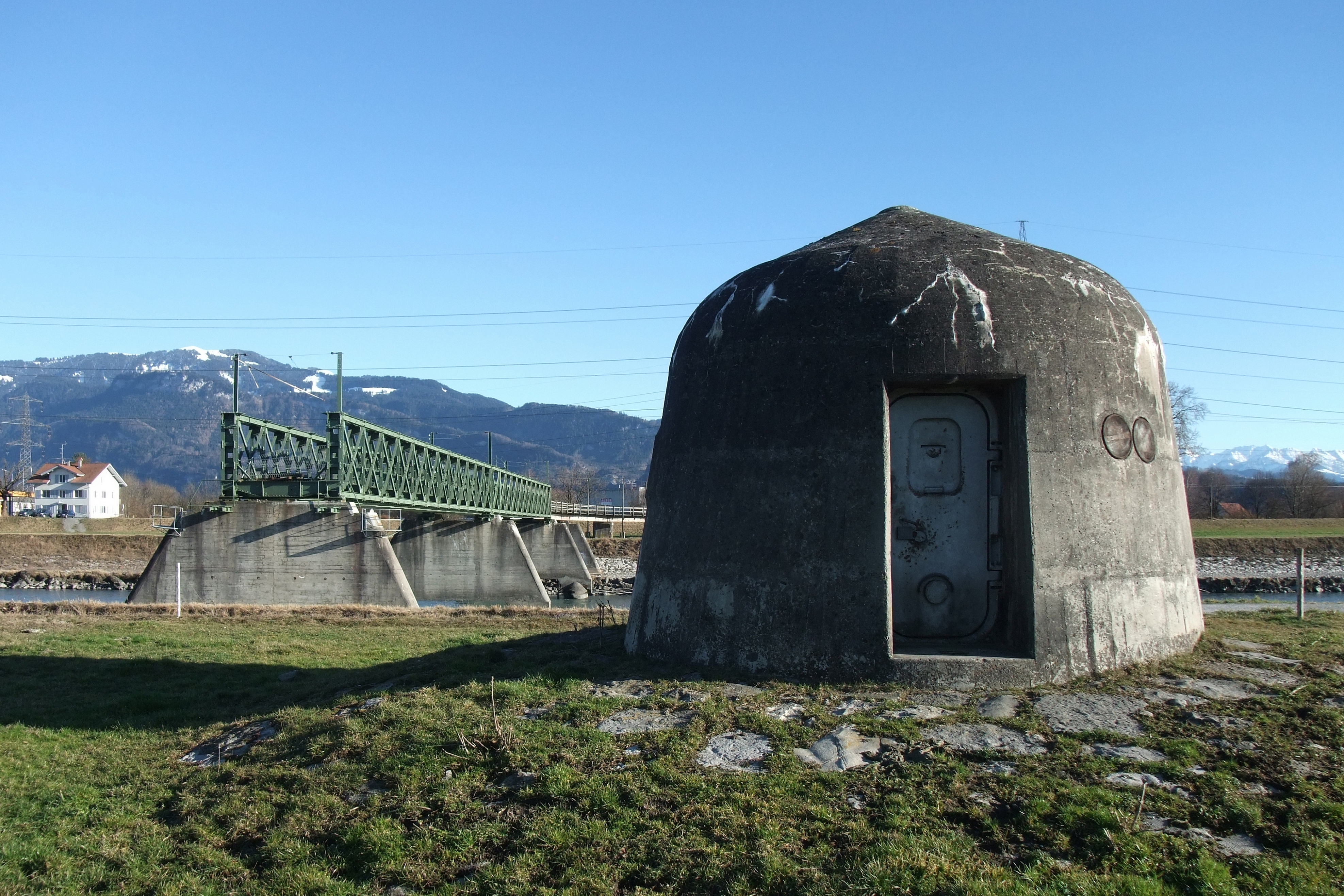 The Swiss mini-bunker from WWII still exists, and the actual rail bridge over the Rhine also. Perhaps, the bunker can still be used in the Third World War, but not in high water. Switzerland, Feb 23, 2014. (5/17)